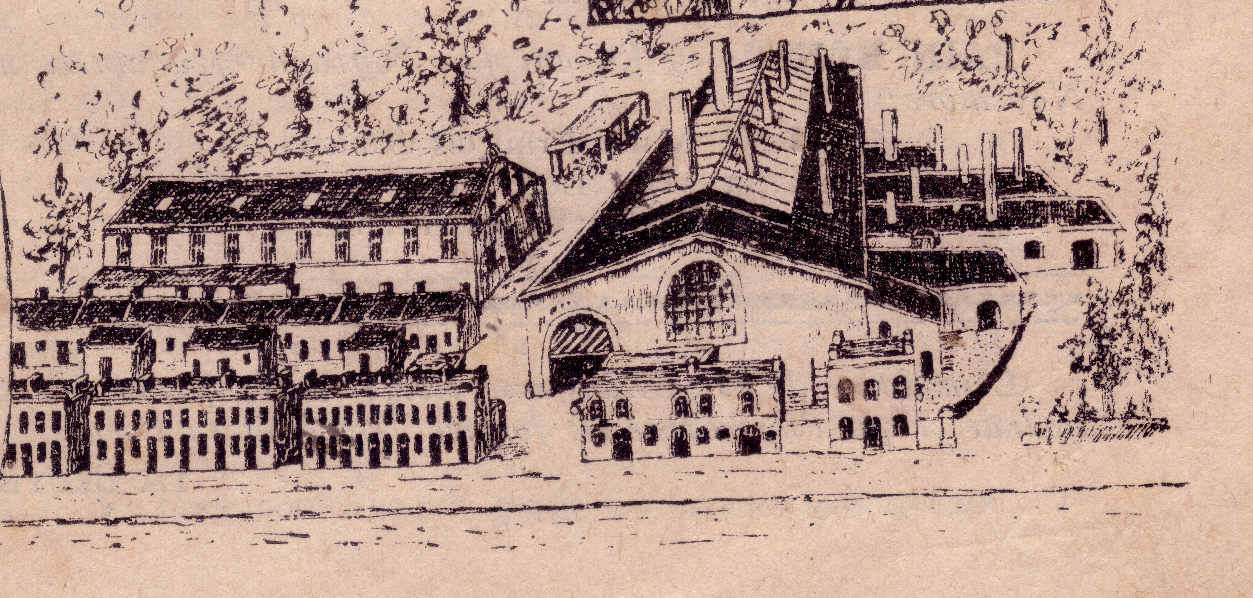 verrerie